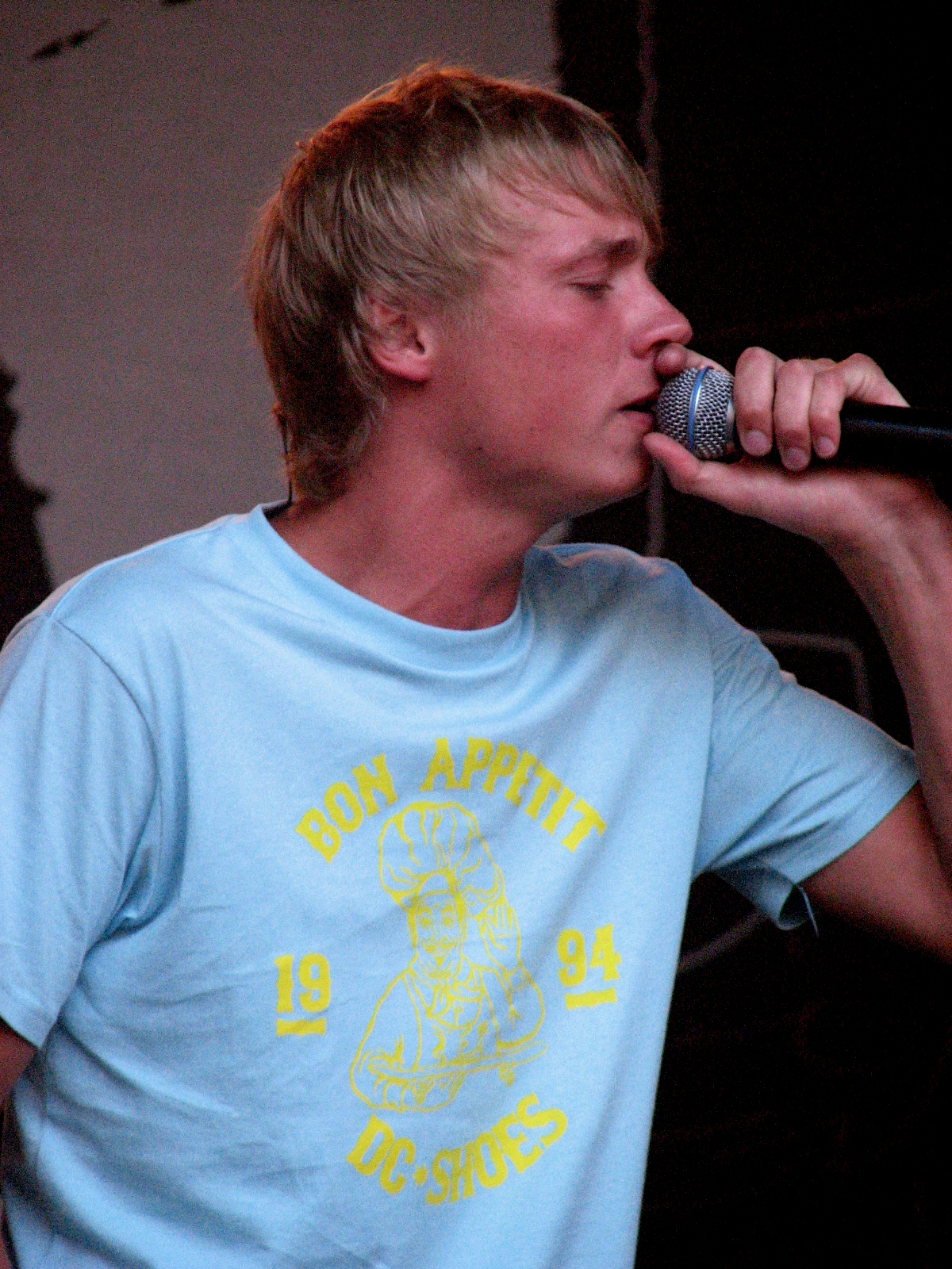 Karl-Kristjan Kingi performing in SunFest 2010 in ruins of Pirita monastery